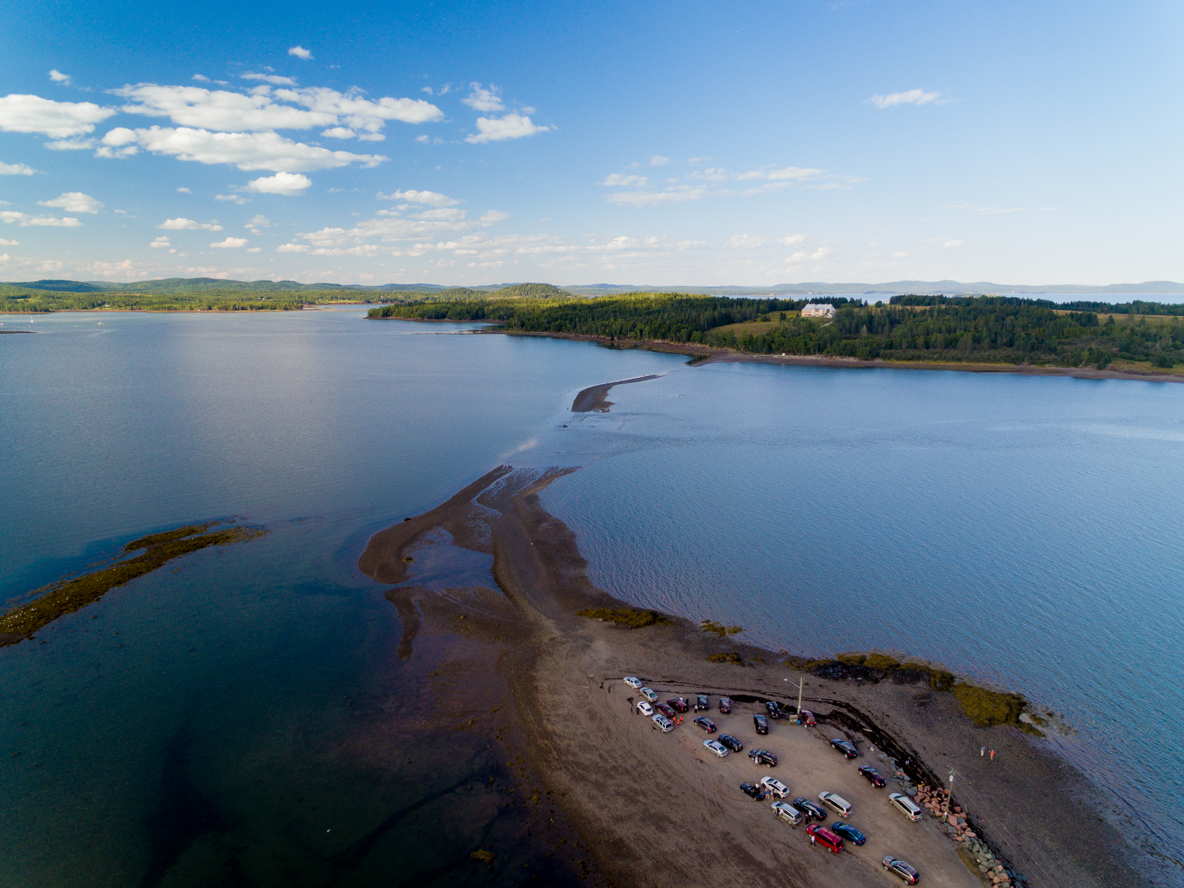 Photo taken 5:45pm on 2017-08-25 about 10 minutes before cars were able to drive to Minister's Island.